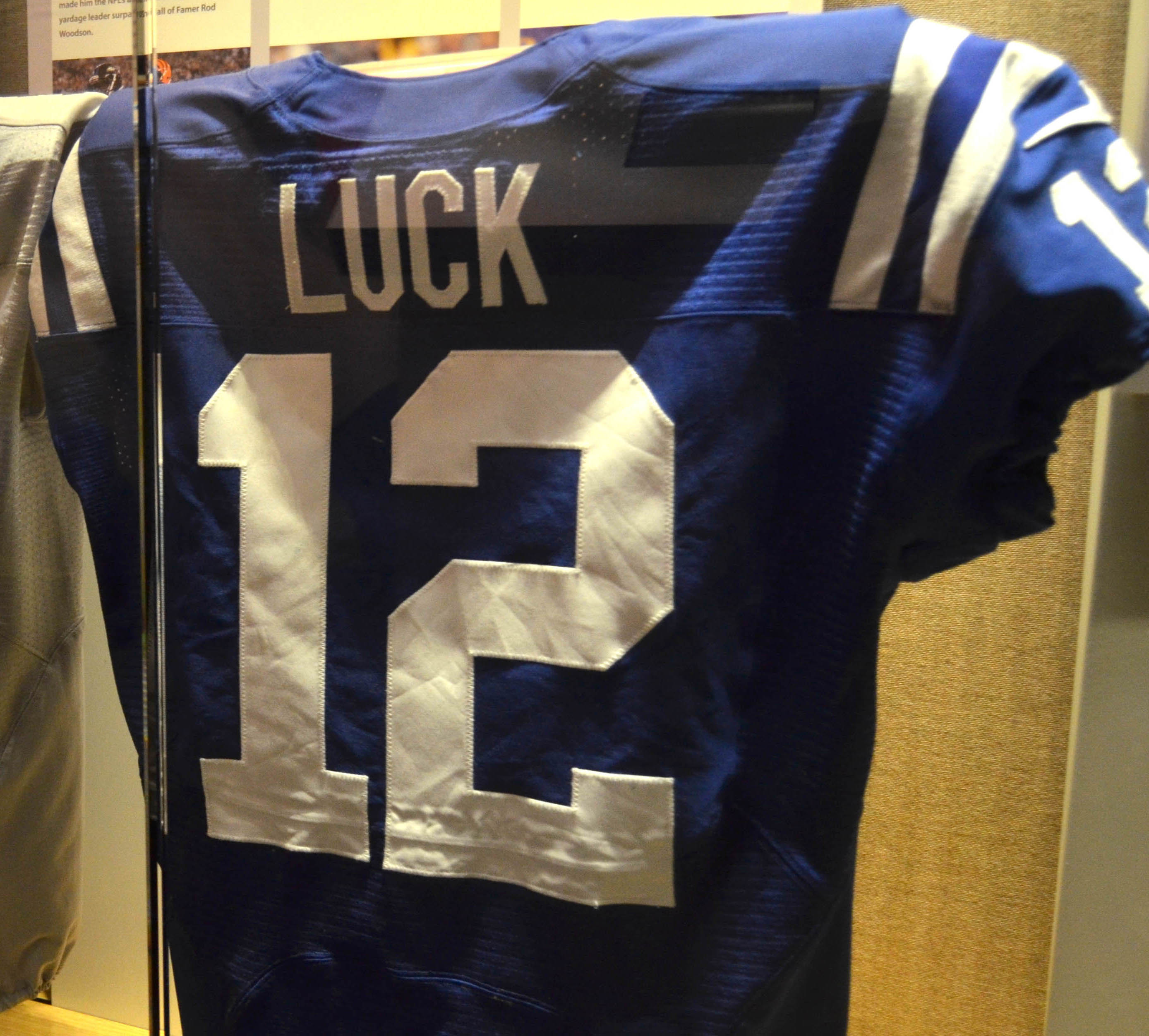 Andrew Luck #12 jersey at the Football Hall of Fame